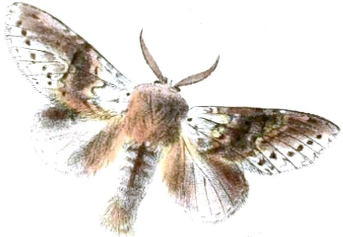 "New Indian Lepidoptera"